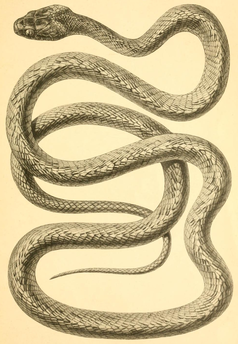 Boiga trigonata, a snake.